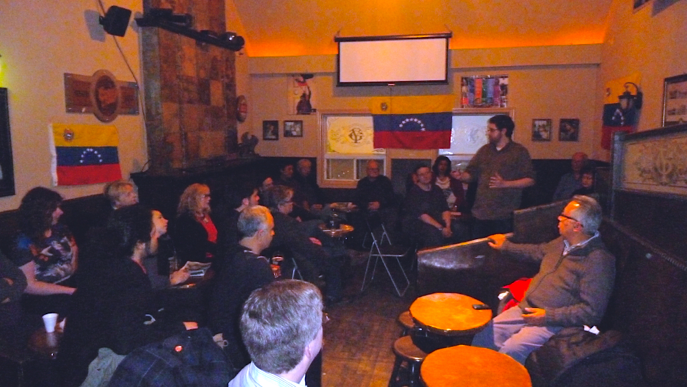 A memorial celebration of Hugo Chávez in Toronto, Canada organized by Hands Off Venezuela and the Toronto Bolivarian Circle.